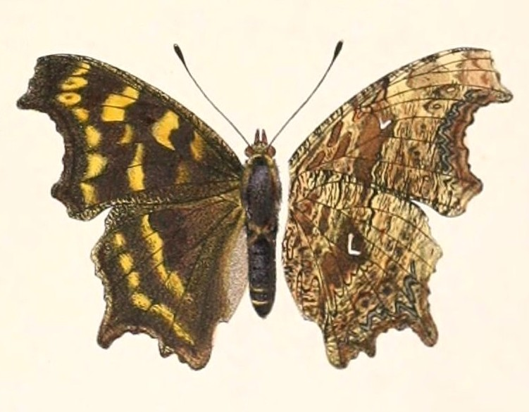 « Grapta bocki » = Polygonia gigantea bocki - female